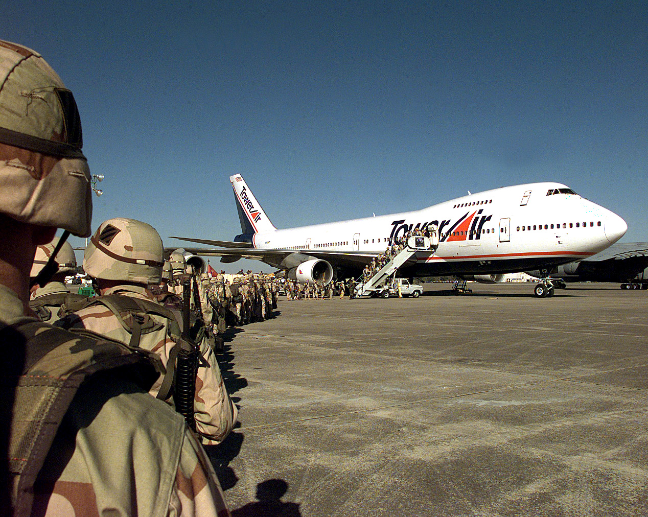 Soldiers of the 3rd Battalion, 69th Armor of the 3rd Infantry, Fort Stewart, Ga., line up to board a Tower Air charter aircraft at Hunter Army Air Field, Ga., for deployment to the Persian Gulf region on Feb. 18, 1998. The soldiers are deploying to the Southwest Asia theater in support of Operation Southern Watch. Southern Watch is the U.S. and coalition enforcement of the no-fly-zone over Southern Iraq.